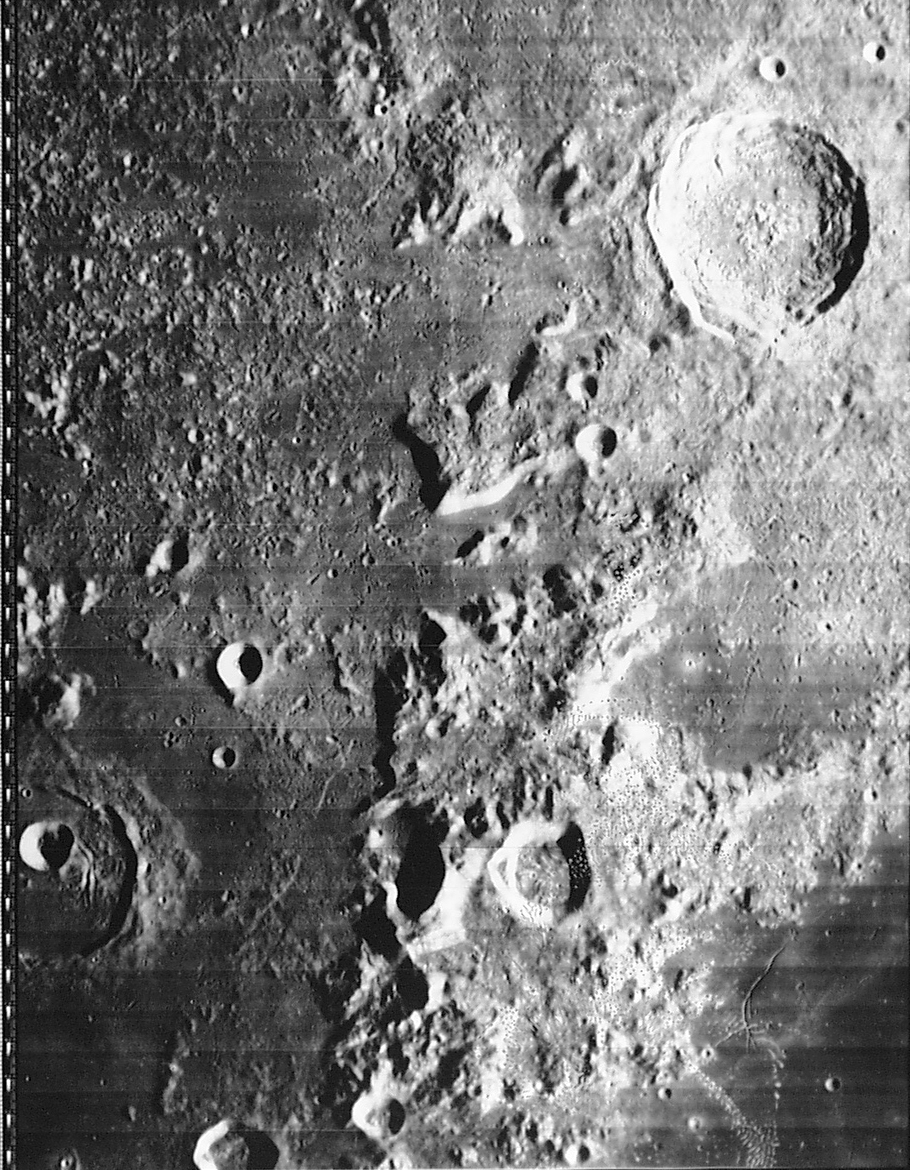 Montes Caucasus and Eudoxus crater